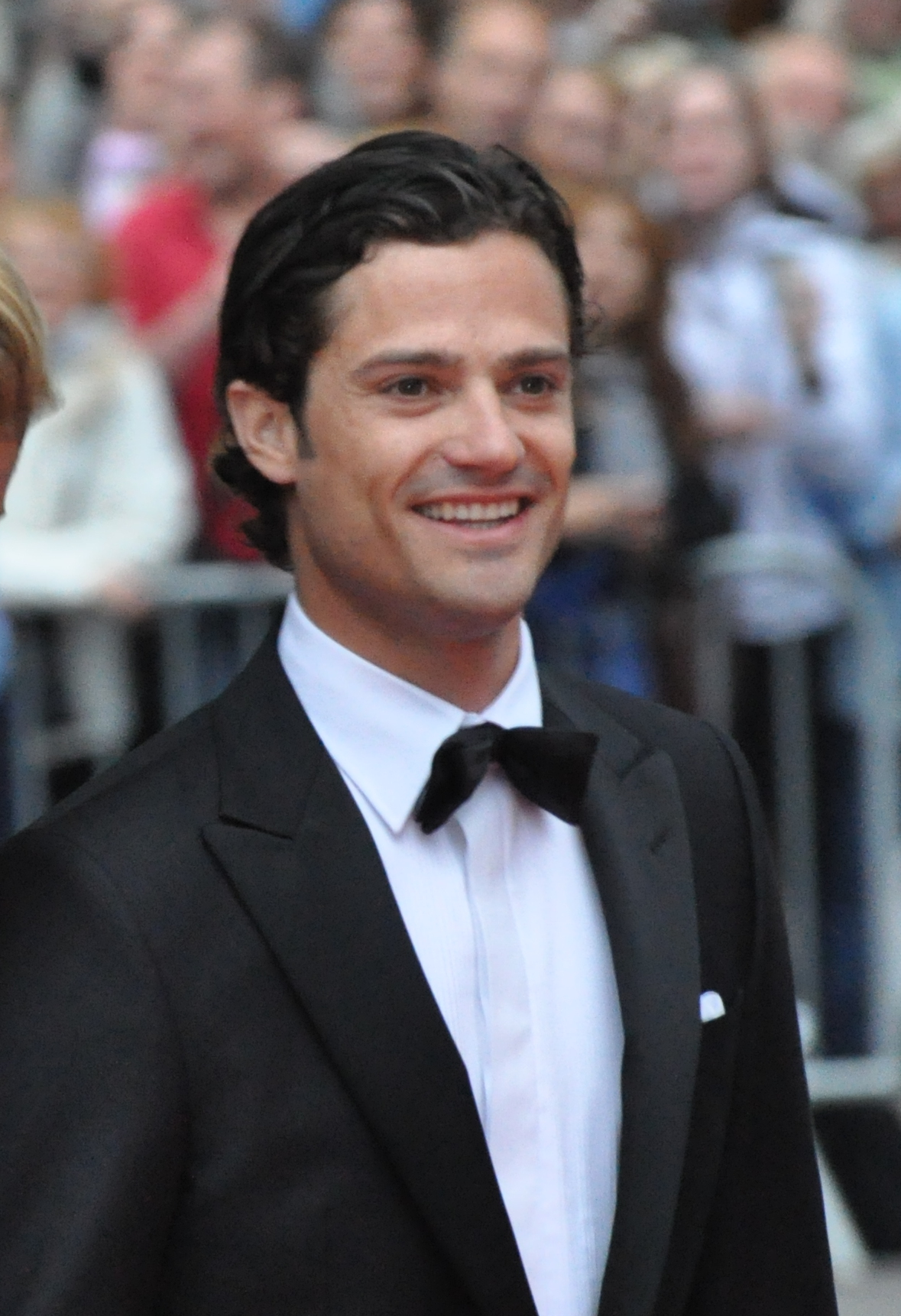 Wedding of Victoria, Crown Princess of Sweden, and Daniel Westling; Arrival of members for the Gouvernment and Swedish and foreign guests of hounour to the Riksdag's Gala Performance at Konserthuset: Prince Carl Philip